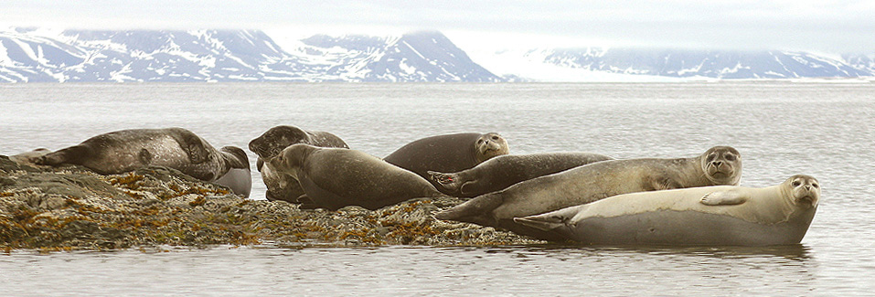 Harbour seal, harbor seal,common seal, Phoca vitulina. Prins Karls Forland, Svalbard, Norway.